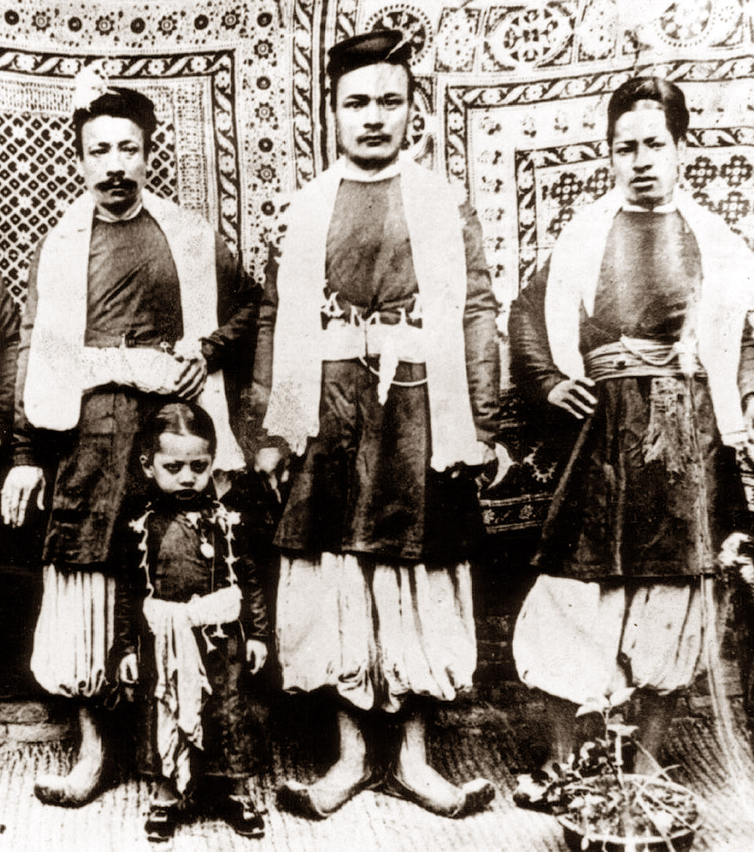 Baggy trousers known as sayn kayta were worn by high-class Newar people of Kathmandu, Nepal.